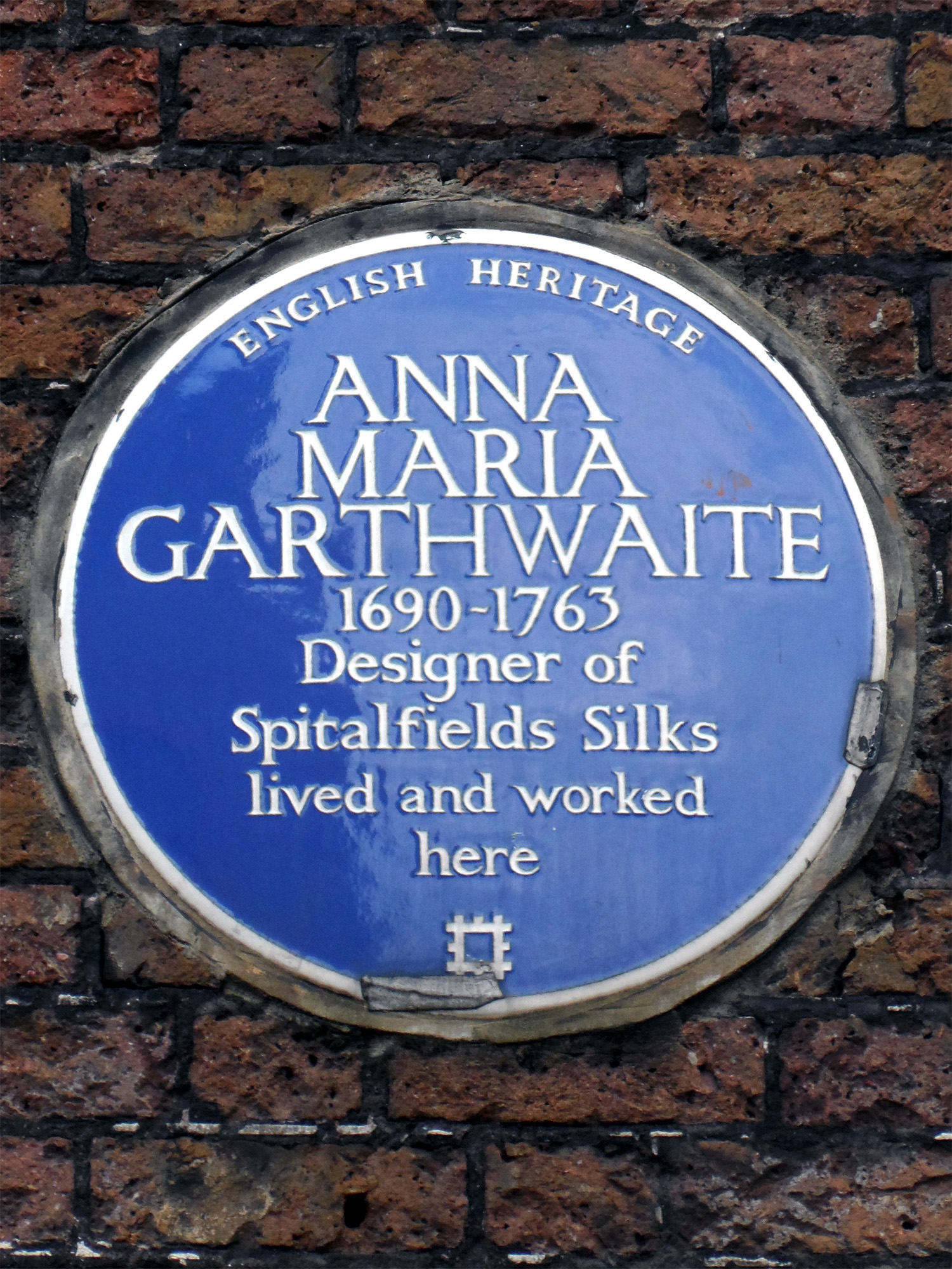 Blue plaque erected in 1998 by English Heritage at 2 Princelet Street, Spitalfields, London E1 6QH, London Borough of Tower Hamlets